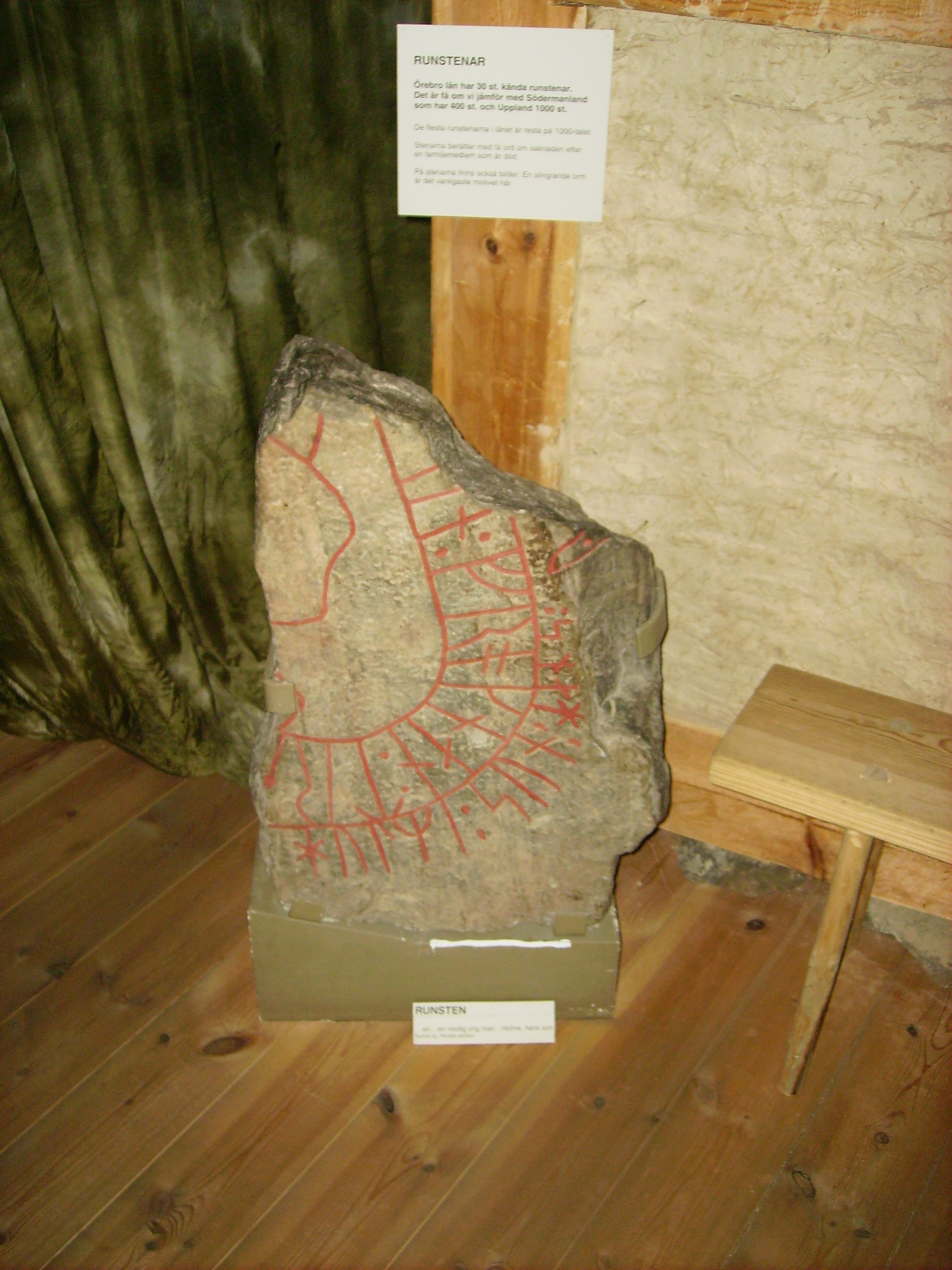 Rune stone fråm Hovsta, Närke, Sweden.